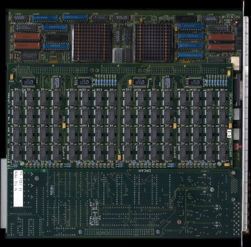 Jean-Bernard EMOND